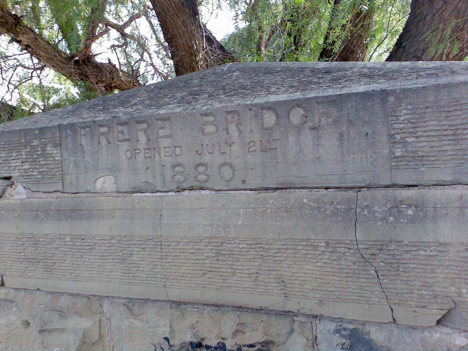 Date of opening Frere Bridge, Aliwal North. Bridge opened on 21 July 1880